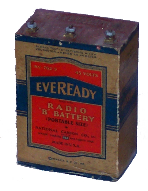 Eveready #762-S 45 Volts, Radio "B" Battery (Portable size) Marked on bottom: For best results put in service before Dec. 1942 L 4.125 inch (104.8mm), W 2.5 inch (63.5mm), H 5.75 inch (146mm). Weight 2 lb 11.25 ounce (1226gm).